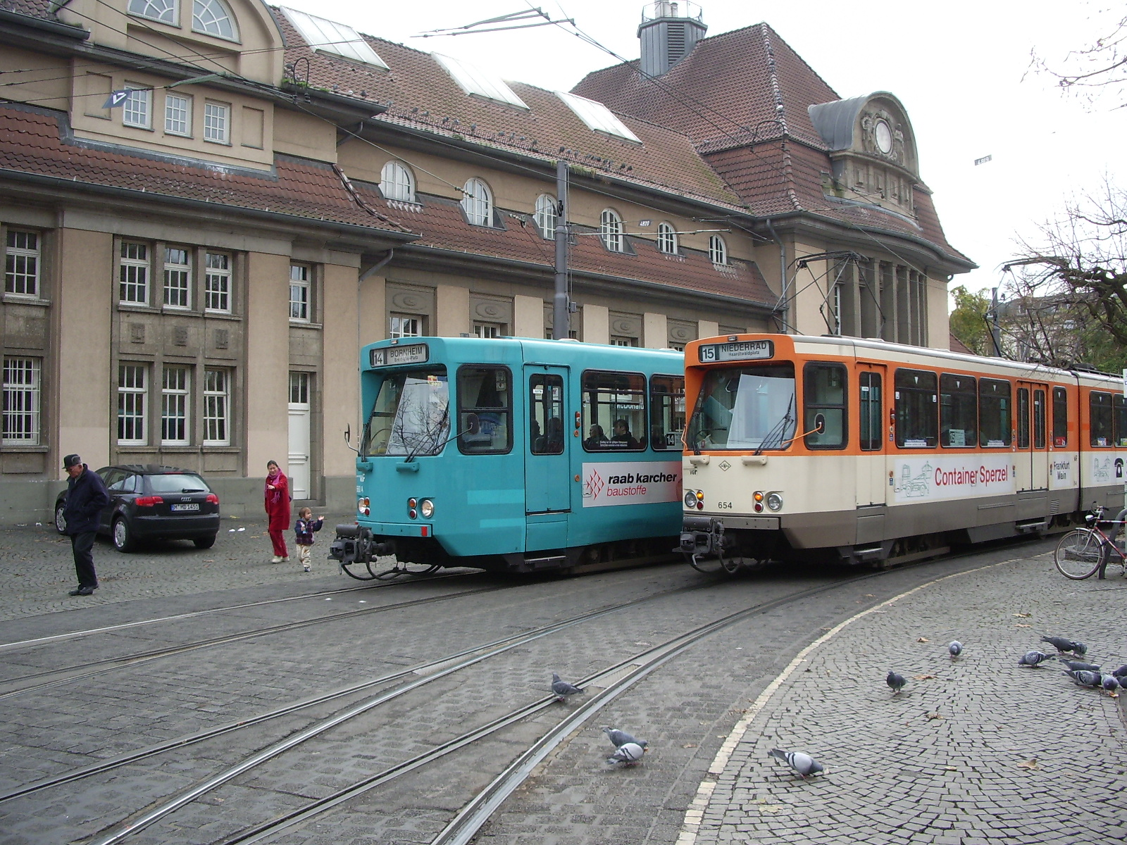 VGF "Pt" class Tramcars Südbahnhof (southern train station), Frankfurt am Main, November 29, 2005. Photo by myself, GNU-FDL. VGF-Straßenbahnwagen des Typs Pt am Südbahnhof, Frankfurt am Main, 29. November 2005. Selbst fotografiert, GNU-FDL.